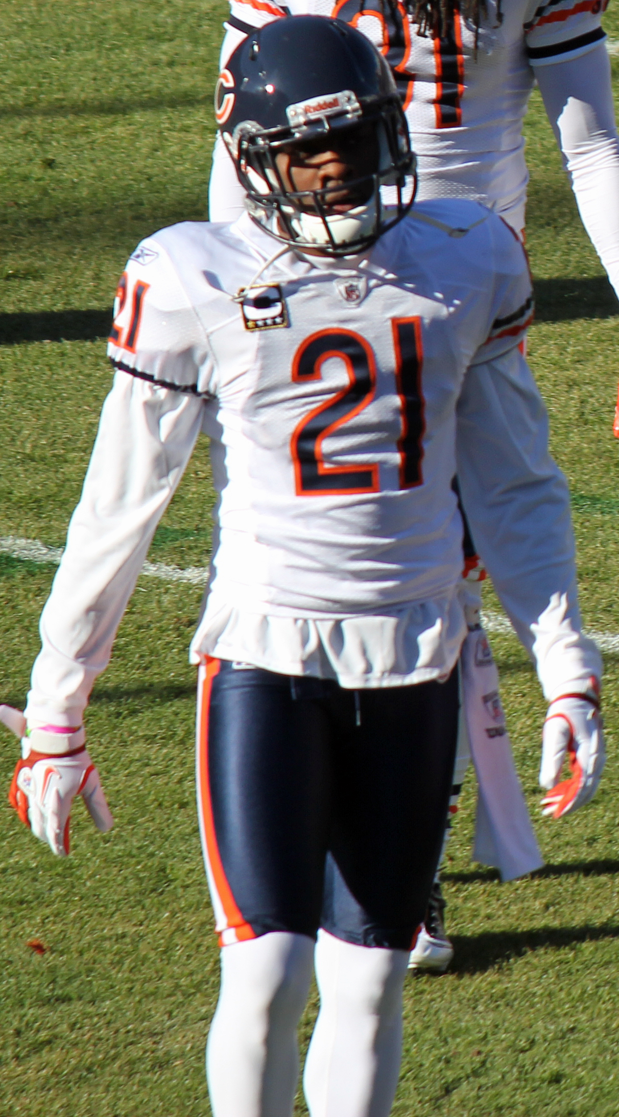 Corey Graham, a player on the National Football League.